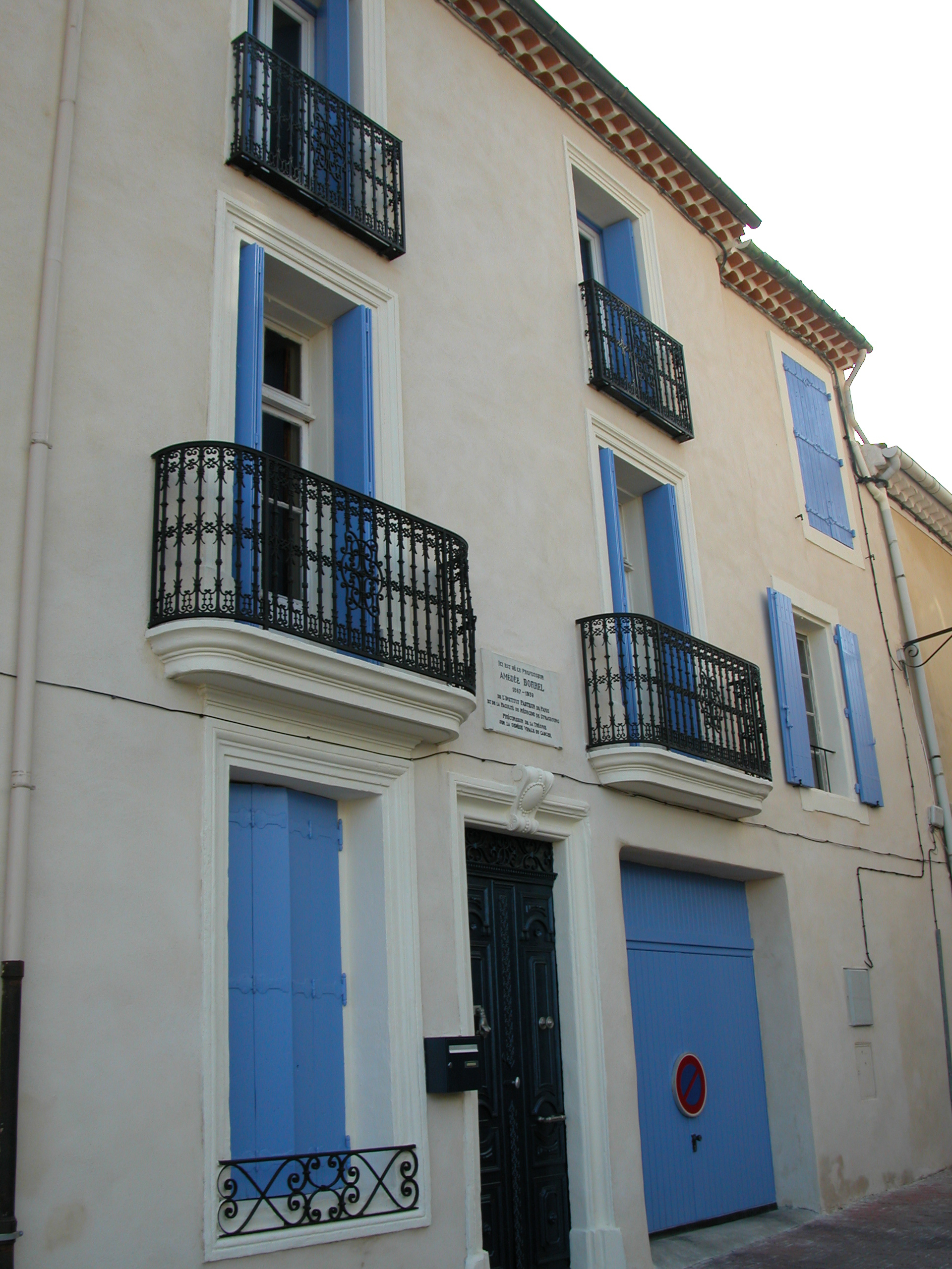 Native house of Amédée Borrel